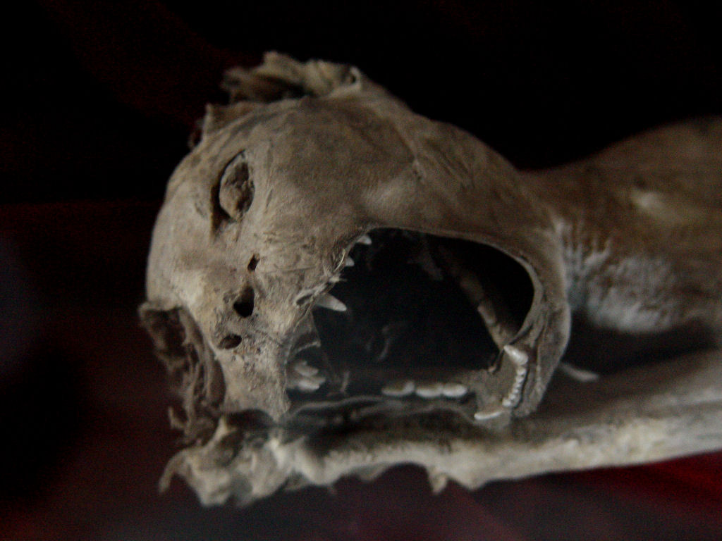 Mummy of cat, from museum: Castle of Dukes of Pomerania, Darłowo, Poland